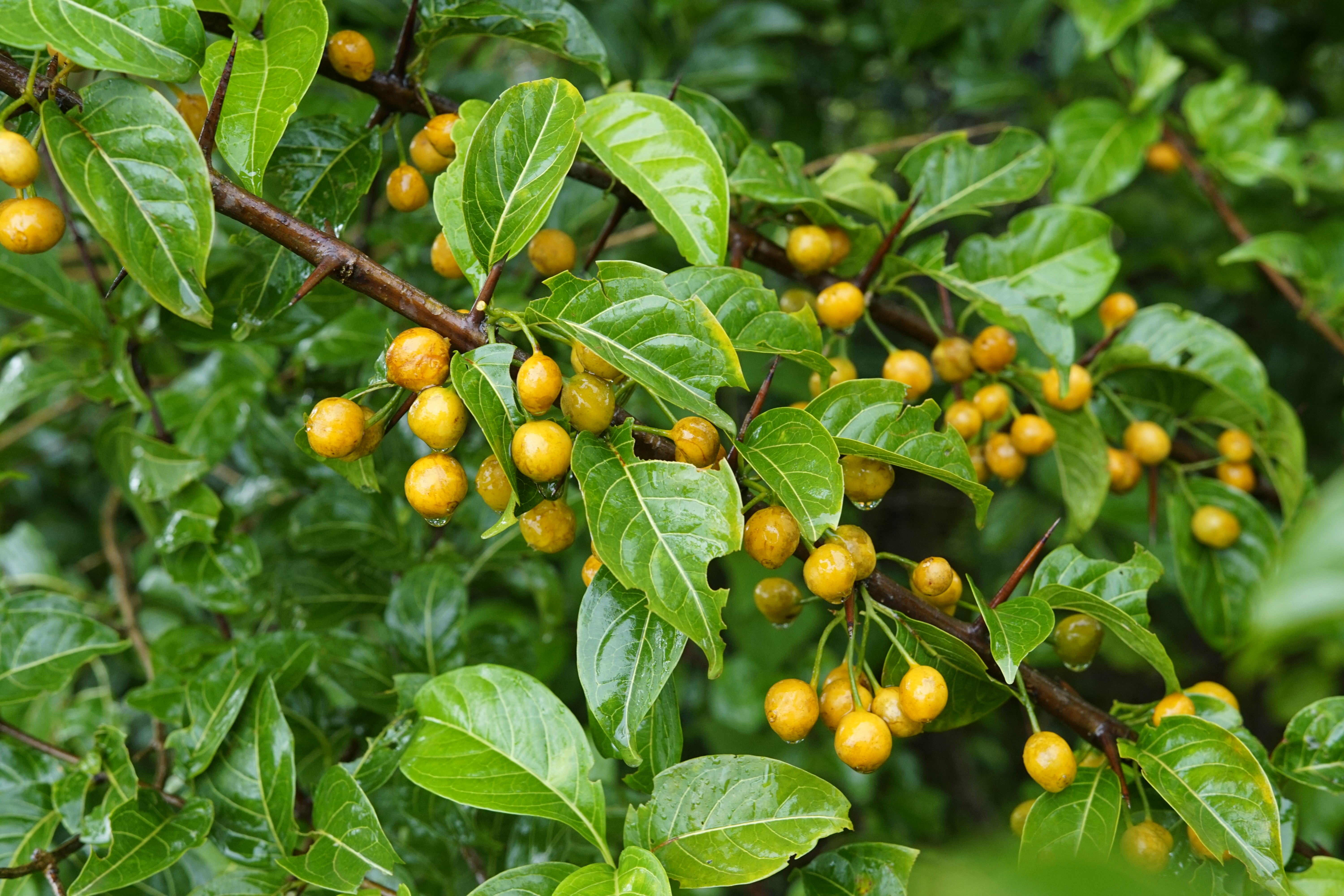 FLORA